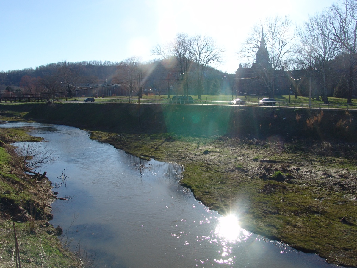 West Fork View with view of former state mental hospital